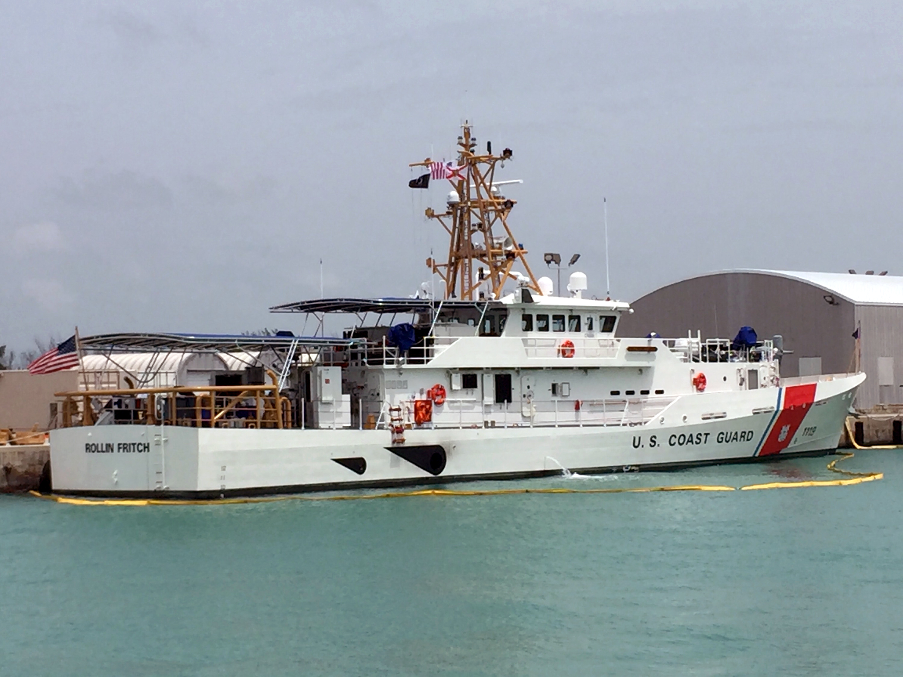 USCGC Rollin A. Fritch prepares to head to her homeport, Cape May, NJ. Original caption: “Coast Guard Cutter Rollin A. Fritch pauses at the pier in Key West, Florida, before heading to its homeport in Cape May, New Jersey, September 1, 2016. The cutter was named after enlisted Coast Guard hero Rollin A. Fritch, who lost his life fighting back against a Japanese kamikaze pilot during World War II. (U.S. Coast Guard Photo by Coast Guard Lt. Jason McCarthey/Released).”